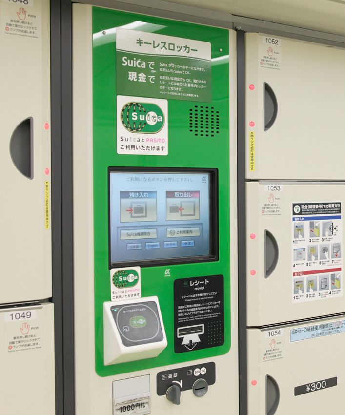 Keyless Locker system for Suica and PASMO in Shibuya Station